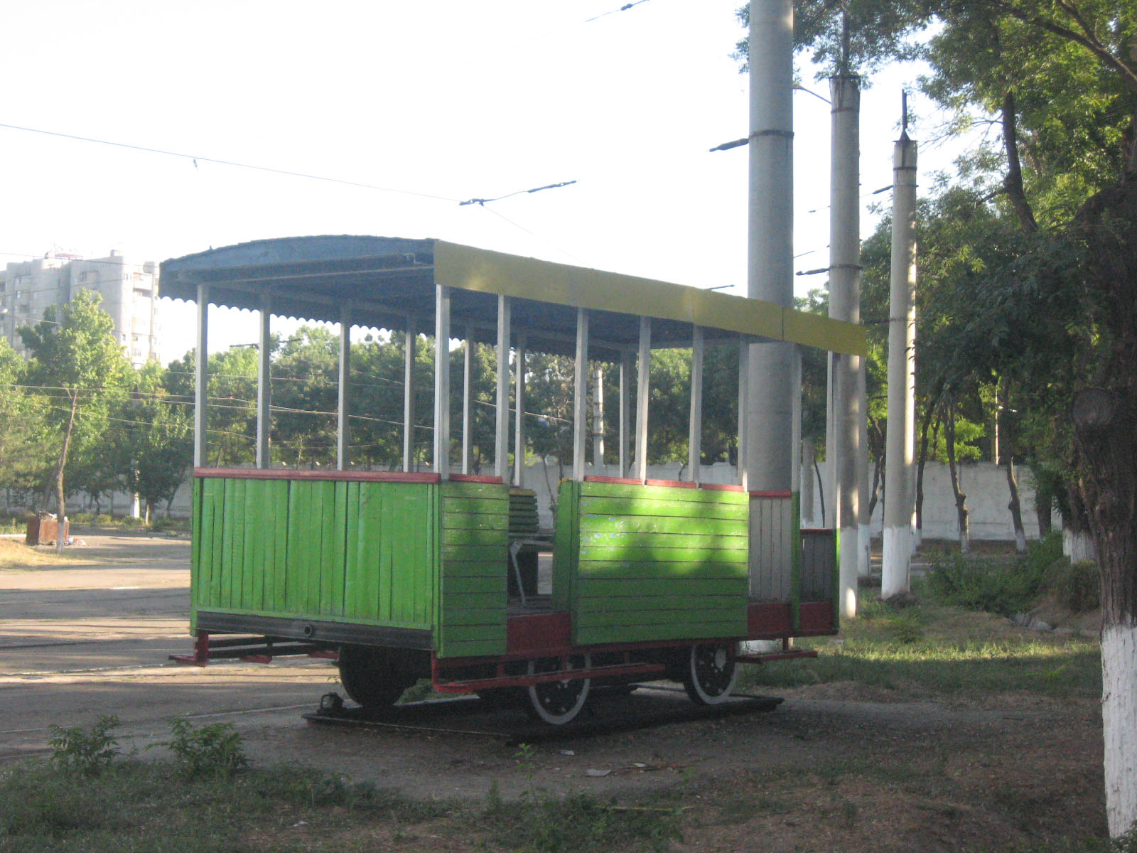 Horse-drawn rail wagon in tram-trolleybus depot №3 of Tashkent